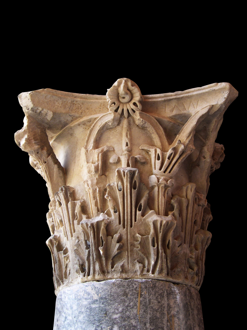 Capitello in stile corinzio - Marmo Bianco - Prima metà II d.c ( età adrianea)